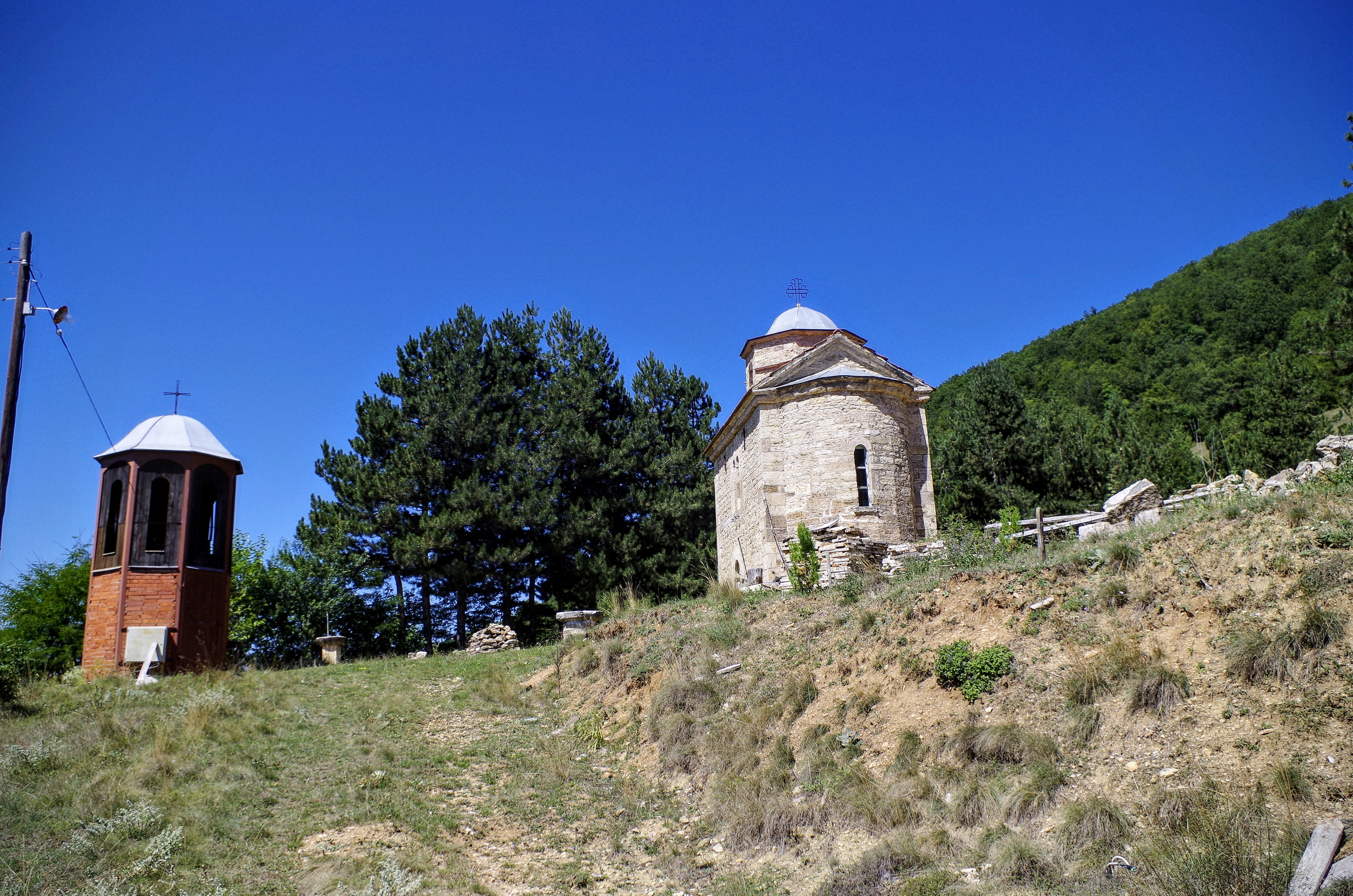 View of St. George's Church in the village Velmej, Macedonia